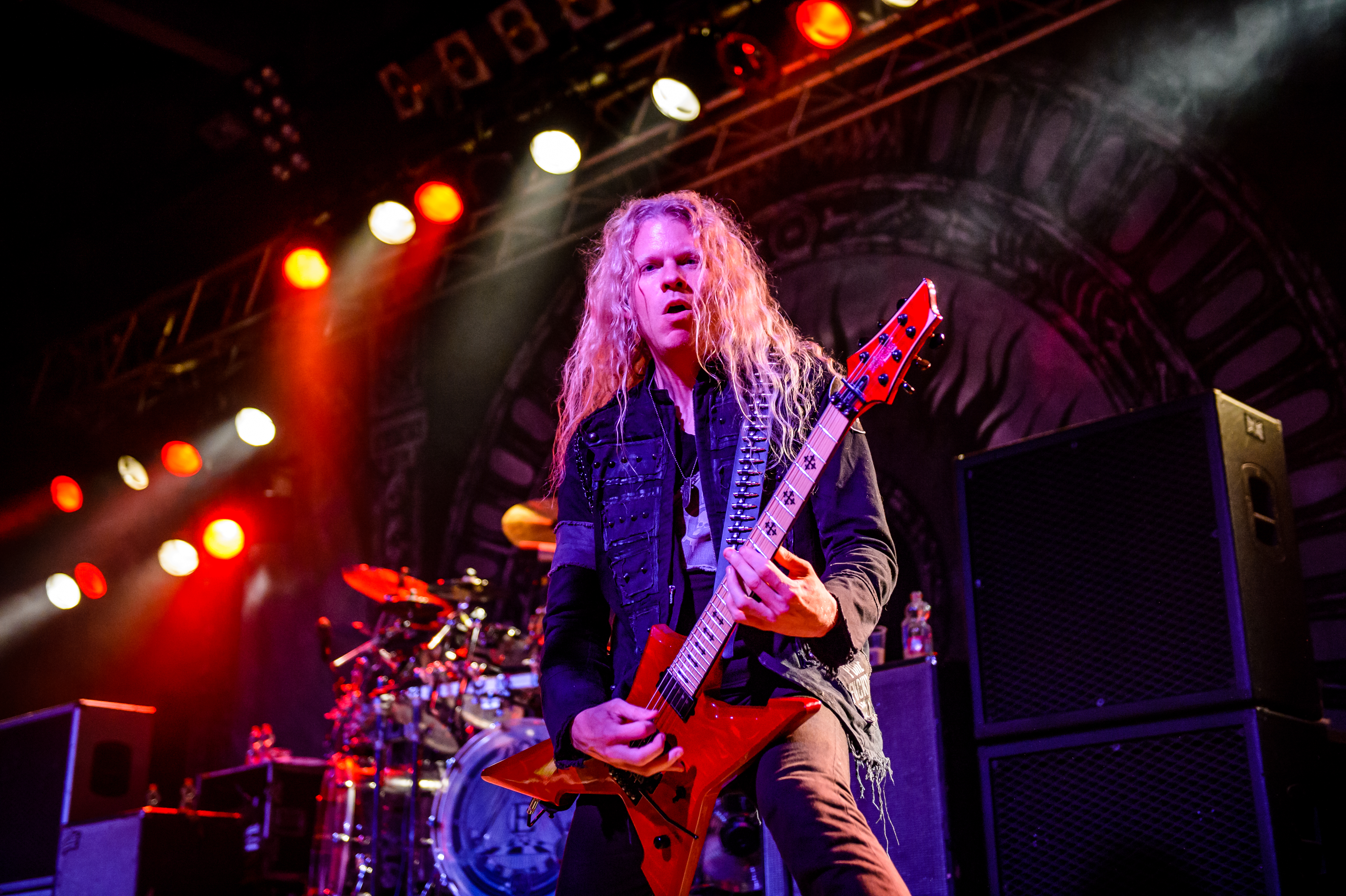 Arch Enemy; RheinRiot Köln 2016